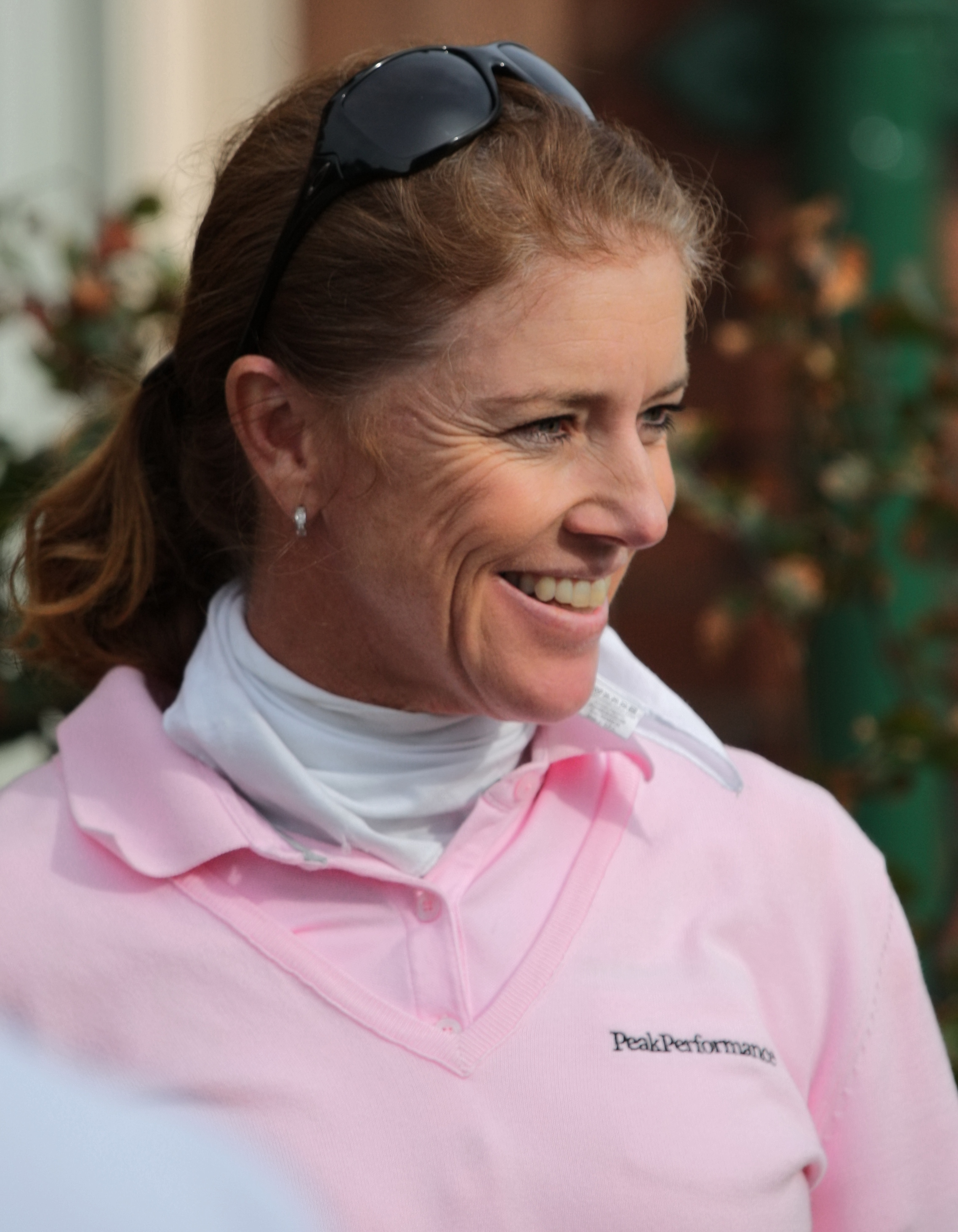 LYTHAM ST ANNES, UNITED KINGDOM - AUGUST 02: Helen Alfredsson of Sweden next to the clubhouse after completion of 2009 Ricoh Women's British Open held at Royal Lytham & St Annes on August 2, 2009 in Lytham St Annes, England. (Photo by Wojciech Migda)